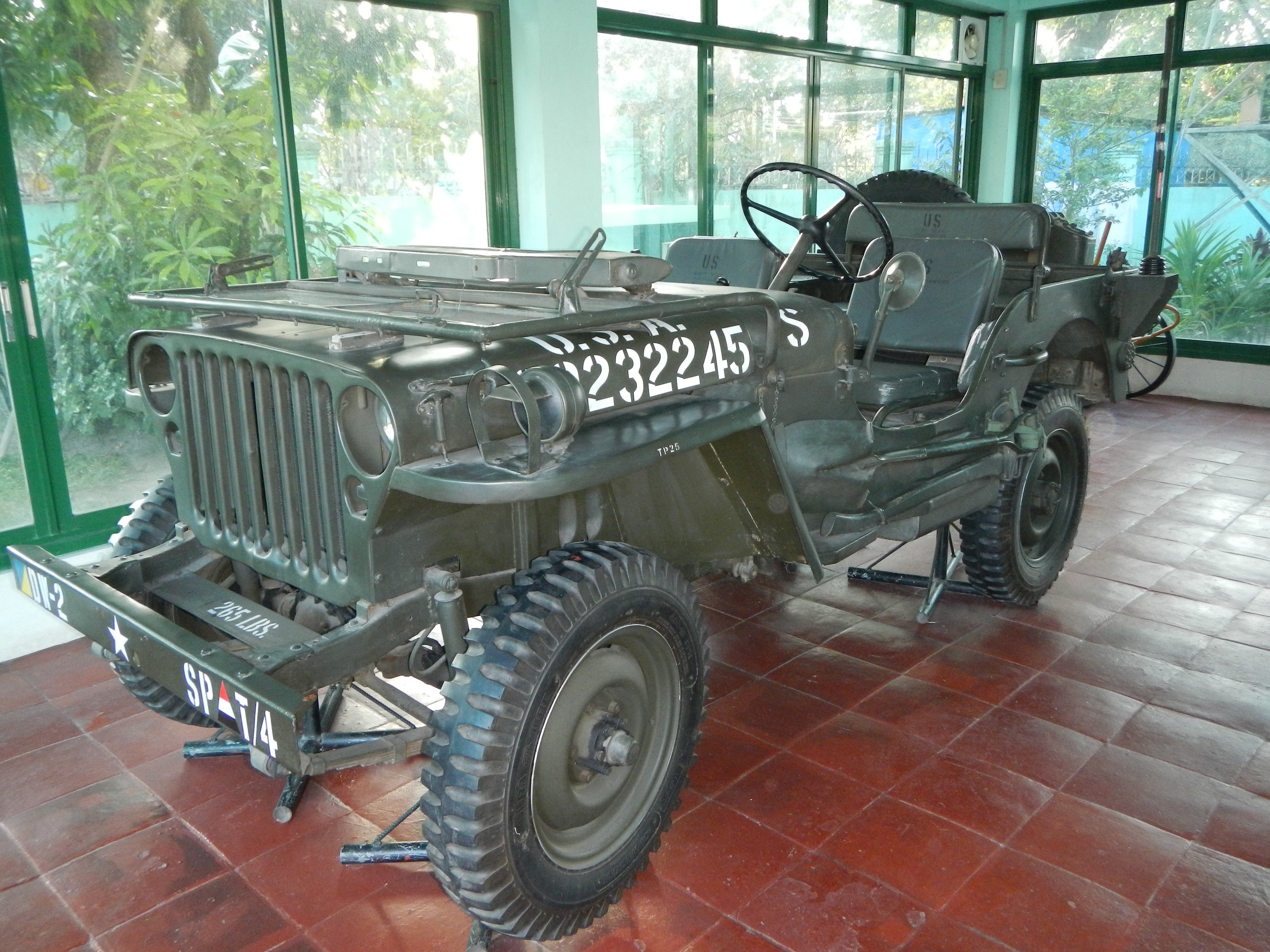 A Willys MB Jeep, said to be in good running condition is displayed at the President Ramon Magsaysay Ancestral House, located at Castillejos, Zambales. This house is the ancestral home of the seventh Philippine President, Ramon Magsaysay. It is open to the public. With traces of the past, the Magsaysay residence is where the former President grew up. This structure houses some of the personal belongings of the late president, from his furniture, appliances, clothing, medallions, books, his 1945 Cadillac limousine and this Jeep. [1][2][3]Location: Castillejos, Zambales (Region III) Category: Building Type: House, NHCP Museum Status: National Historical Landmark[4][5] Castillejos, Zambales[6] Ramon Magsaysay[7]